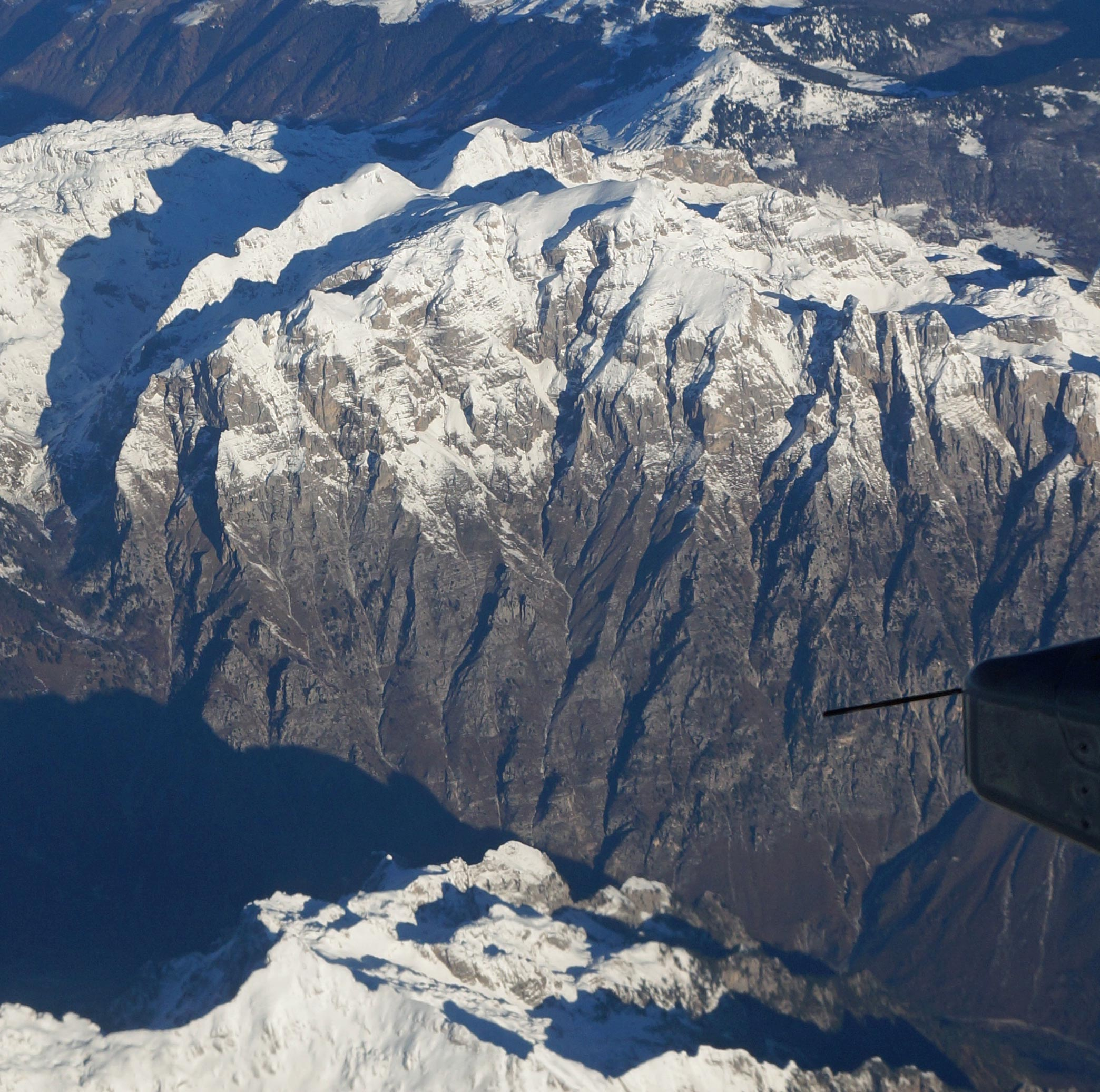 Kollata mountain in Northern Albania